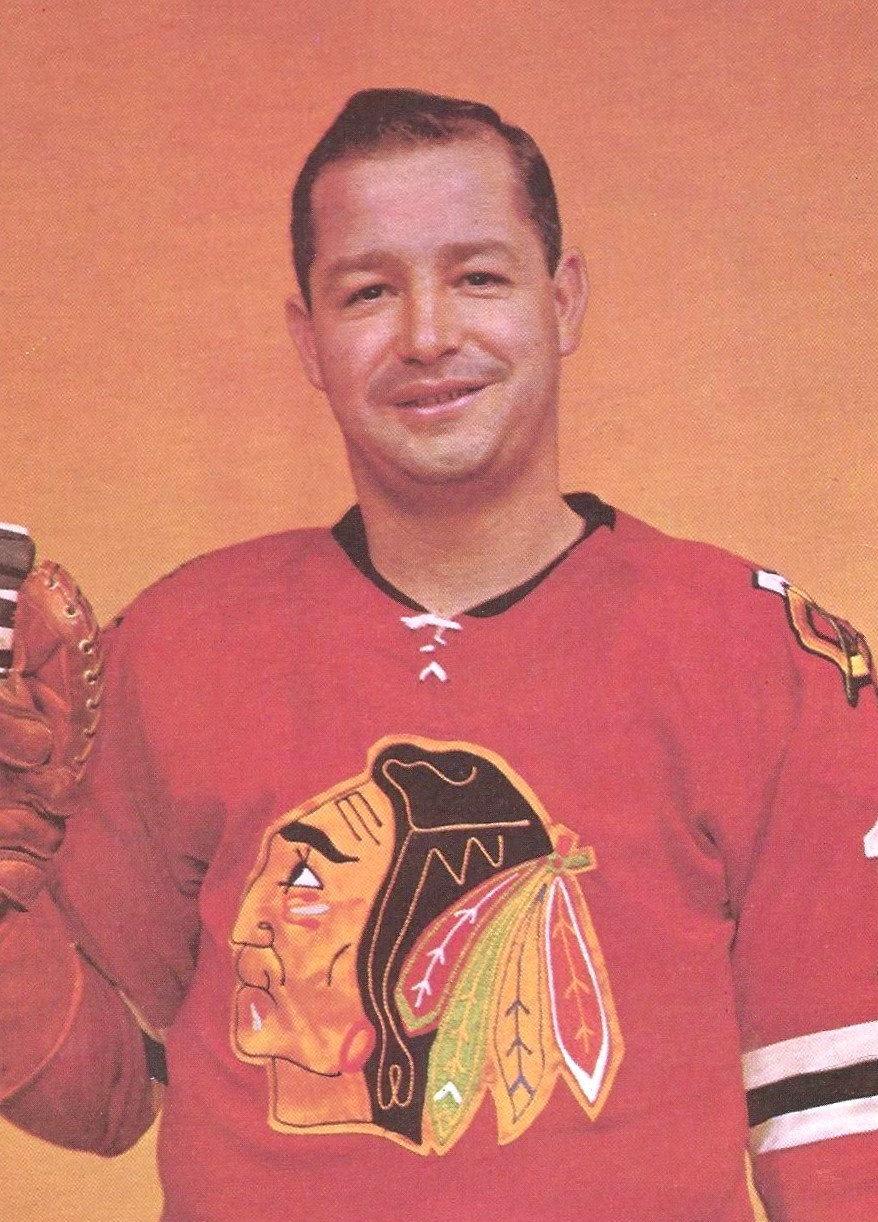 Trading card photo of Glenn Hall as a member of the Chicago Blackhawks. These cards were printed on the backs of Chex cereal boxes in the US and Canada from 1963 to 1965. Those collecting the cards cut them from the back of the boxes. Hall's card at PSA.